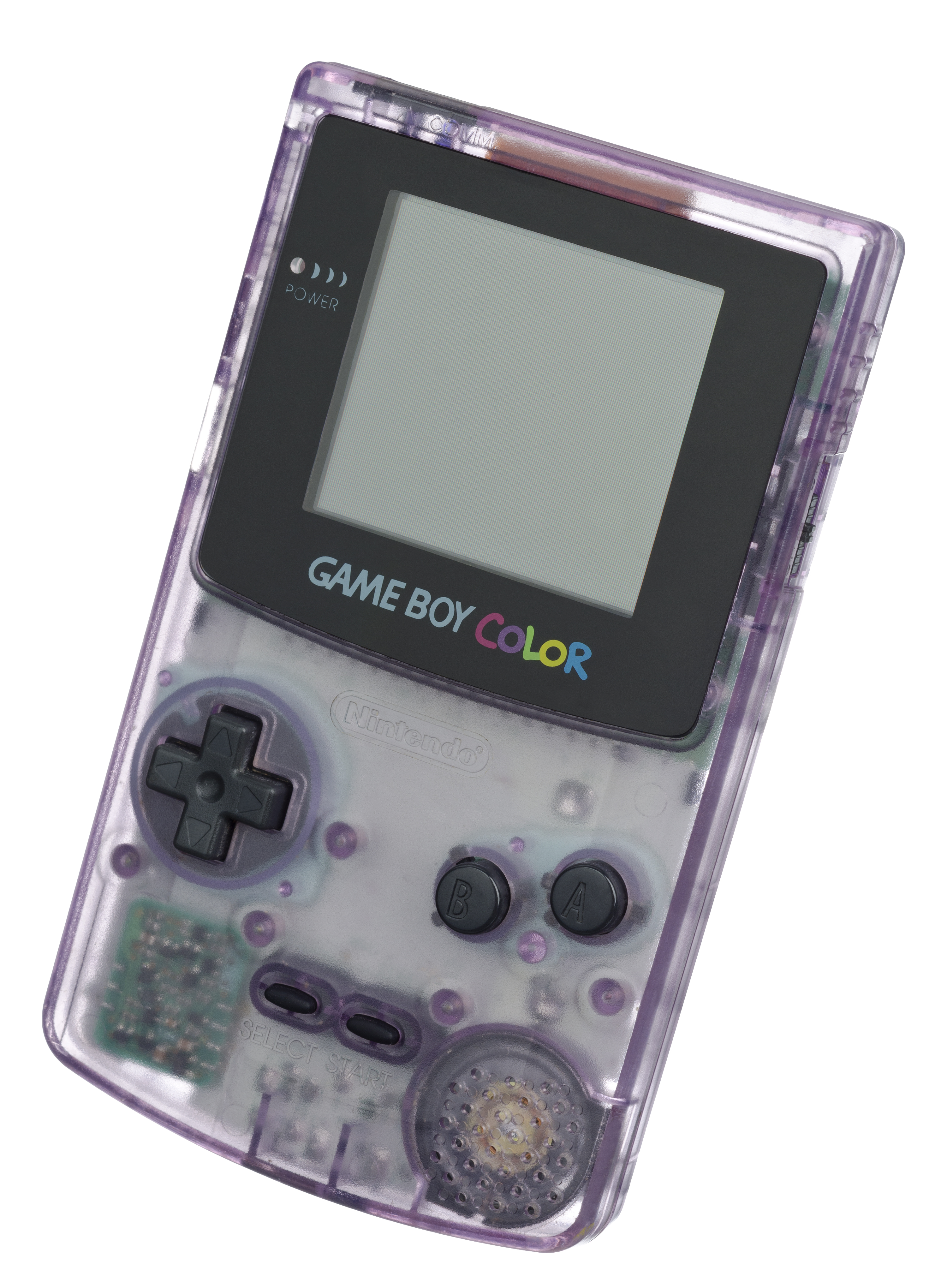 The Game Boy Color, a handheld gaming console released by Nintendo in 1998. The Game Boy Color is a slightly upgraded model of the Game Boy, which features a non-backlit color LCD screen and a faster Z80 processor. It is backwards compatible with older Game Boy games and can also play Game Boy Color-only games.